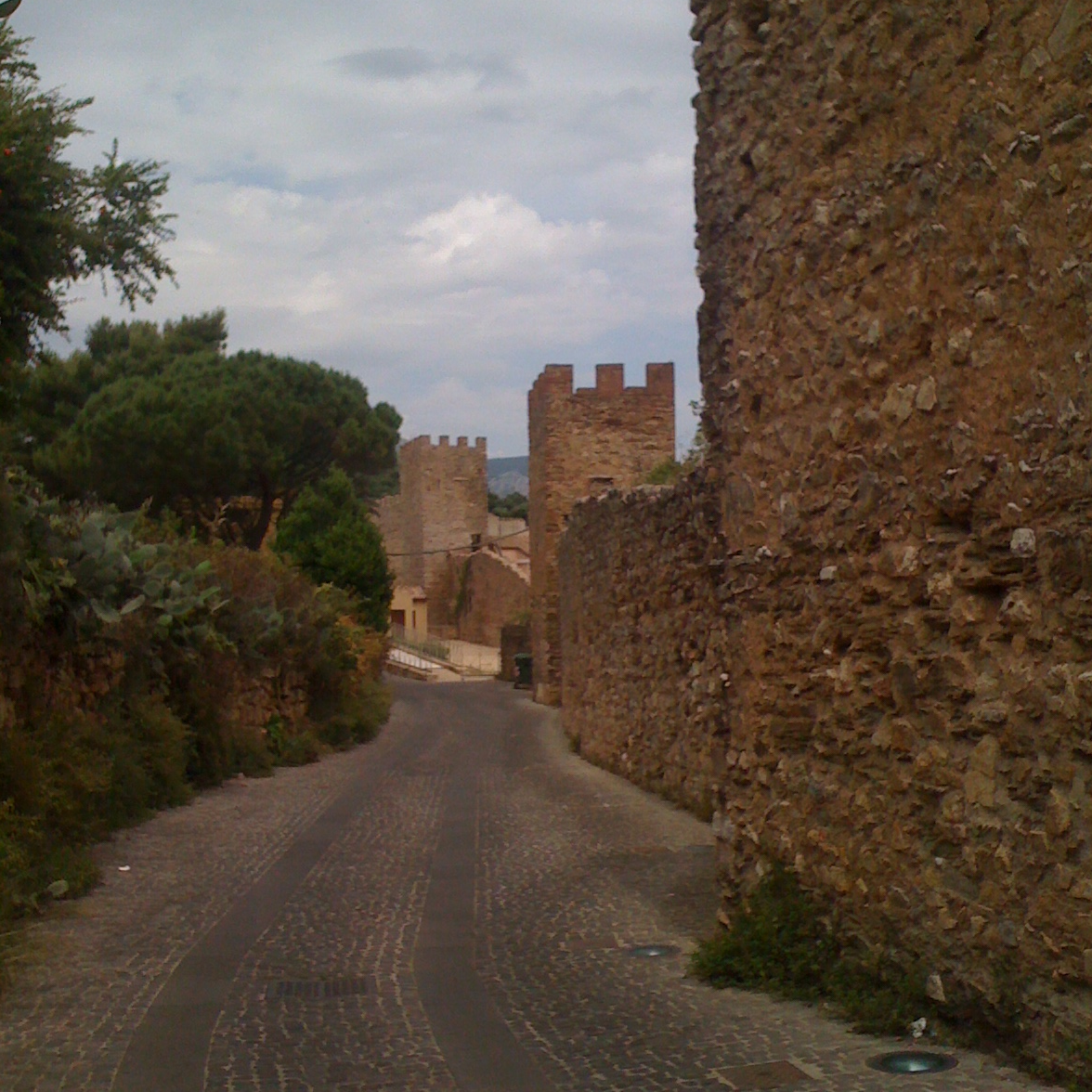 Walls of Iglesias - Italy,Sardinia